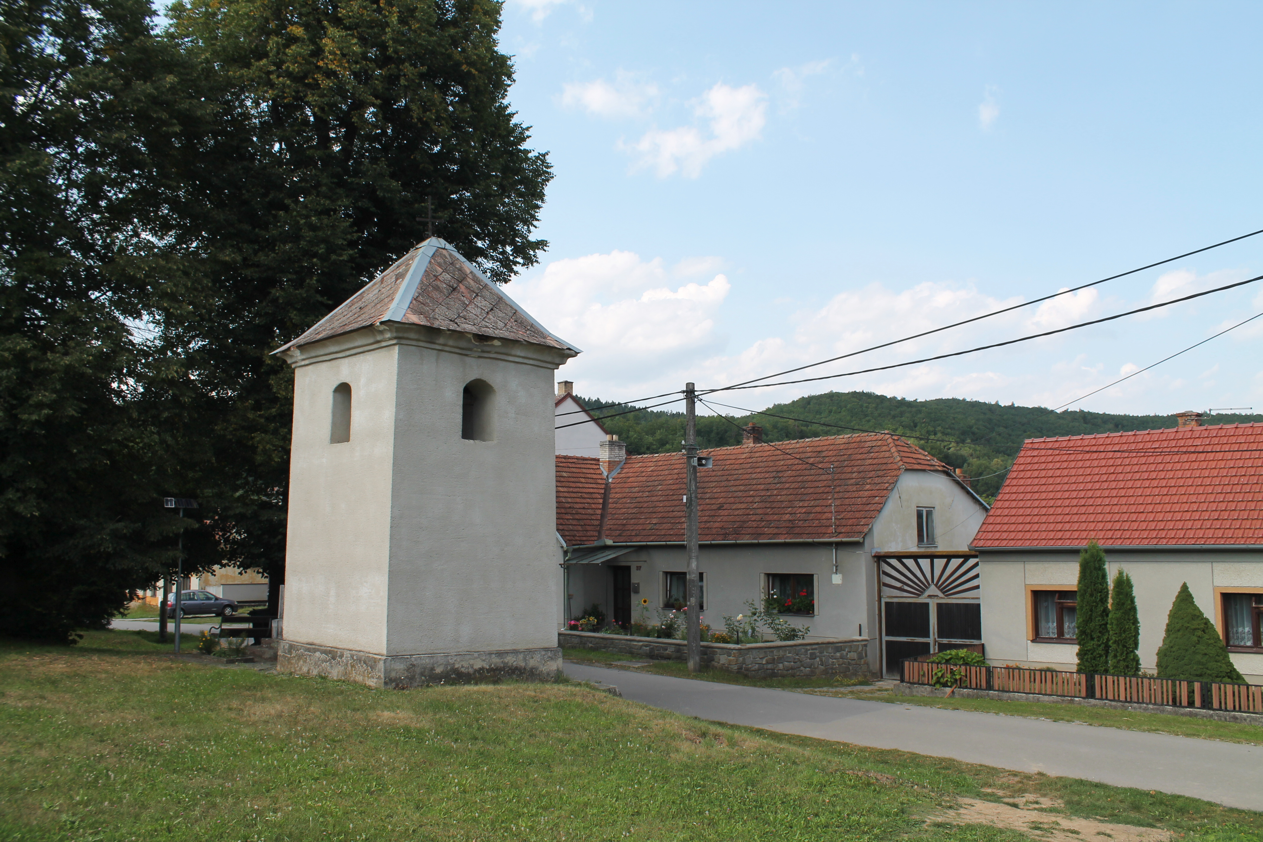 Bell tower, Pístovice, Račice-Pístovice, Vyškov District, Czech Republic